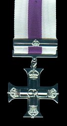 The George VI version of the Military Cross, for gallant and distinguished services in action.